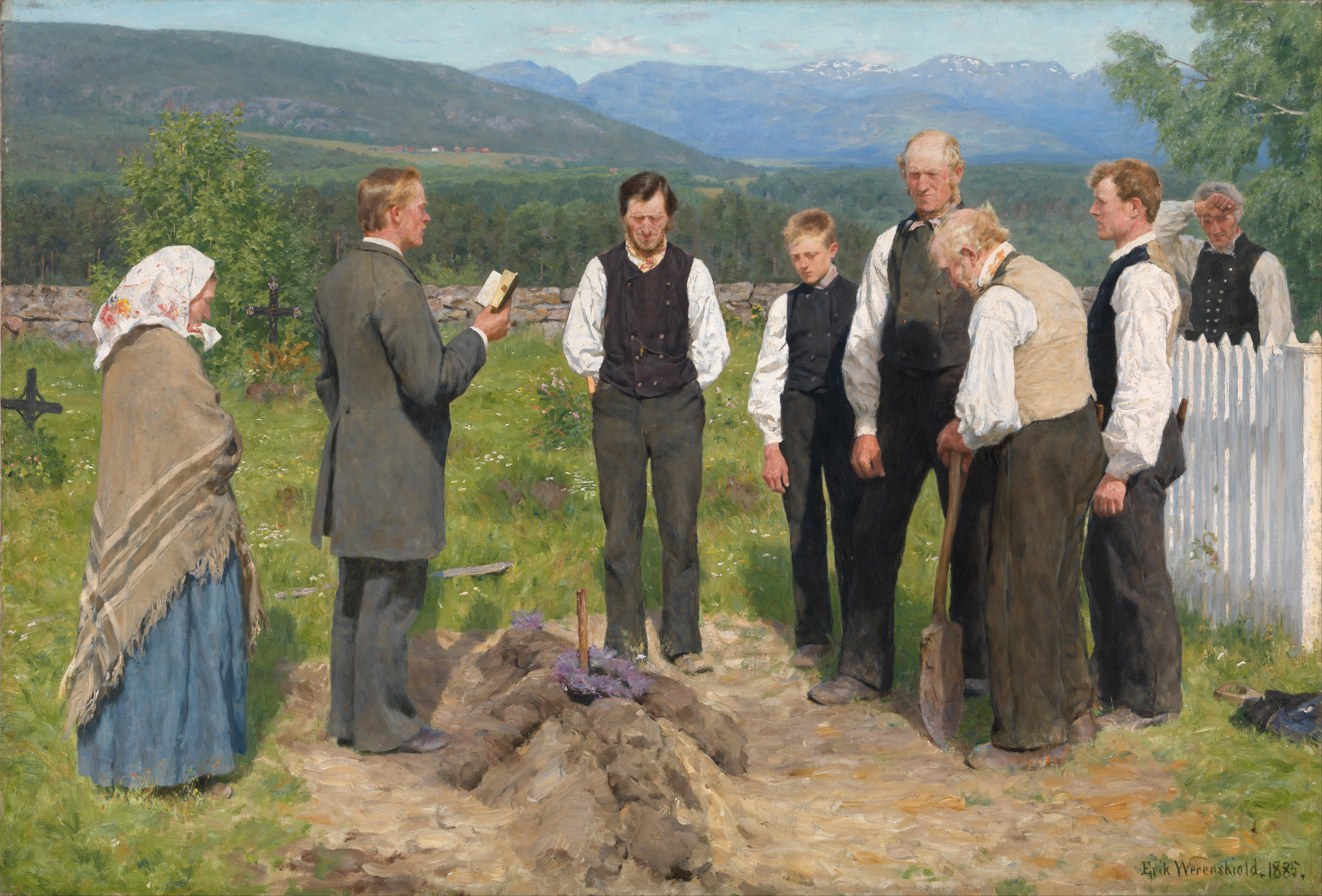 Peasant Burial, oil painting by Norwegian painter Erik Werenskiold, 1885. High resolution scan.